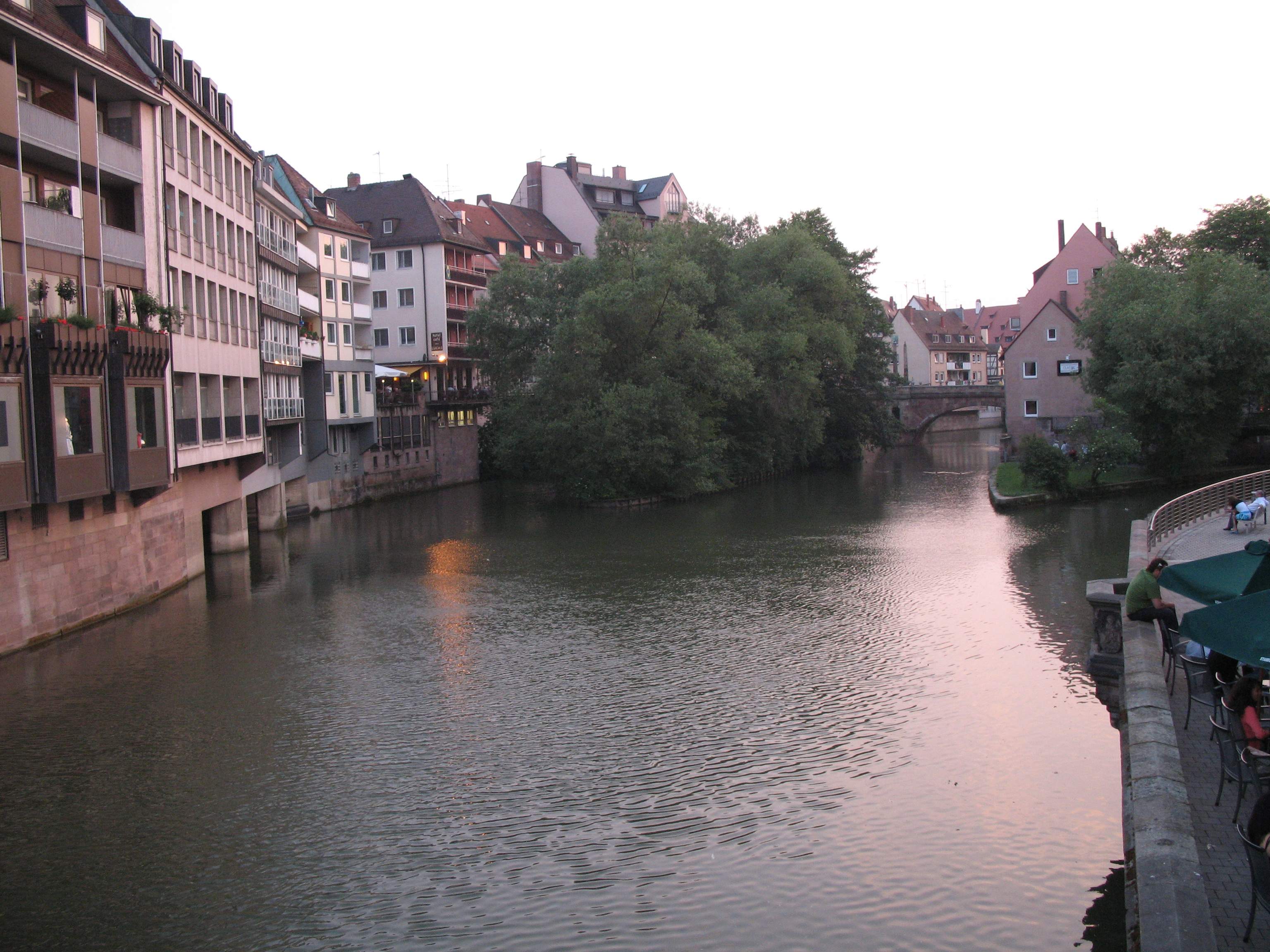 Pegnitz, Nuremberg, Germany.